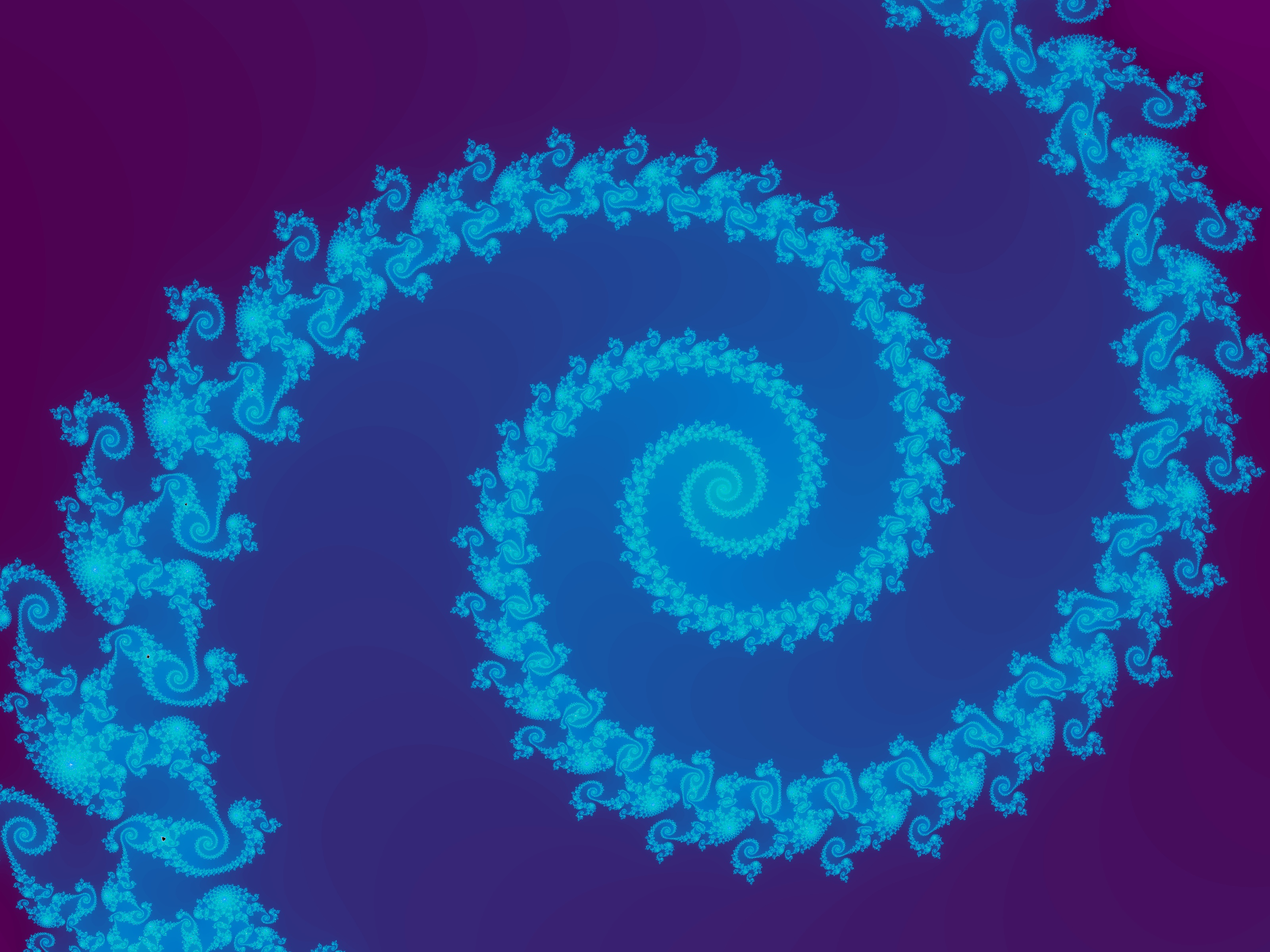 A section of the Mandelbrot Set between (-0.77016296, -0.11594849i) and (-0.77211609, -0.11448364i). The center is (-0.771139525,-0.115216065i) and the radius is about 0.001. A cube root coloring scheme, with an offset of 60, was used for maximum contrast.